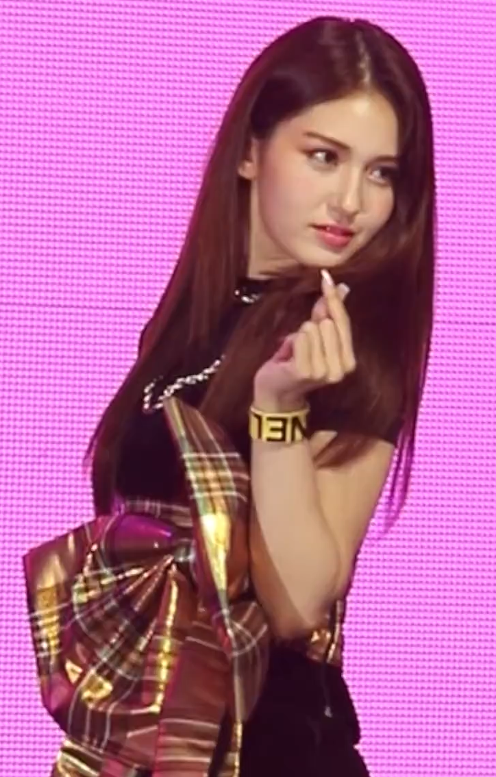 Somi at her debut showcase for Birthday on 13 June 2019